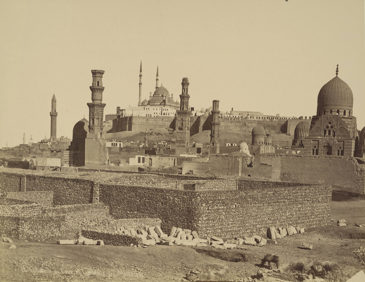 Collection: A. D. White Architectural Photographs, Cornell University Library Accession Number: 15/5/3090.01505 Title: Cairo. Citadel and Mamluk Tombs Photographer: J. Pascal Sébah (Turkish, active 1860-1880) Mohammed Ali Mosque date: 1805-1848 Citadel date: 1176-ca. 1218 Photograph date: ca. 1865-ca. 1889 Location: Africa: Egypt; Cairo Materials: albumen print Image: 8.2677 x 10.6299 in.; 21 x 27 cm Style: Mamluk Provenance: Gift of Andrew Dickson White Persistent URI: There are no known U.S. copyright restrictions on this image. The digital file is owned by the Cornell University Library which is making it freely available with the request that, when possible, the Library be credited as its source. We had some help with the geocoding from Web Services by Yahoo!